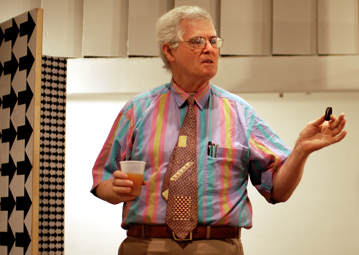 David Hartwell, 2008